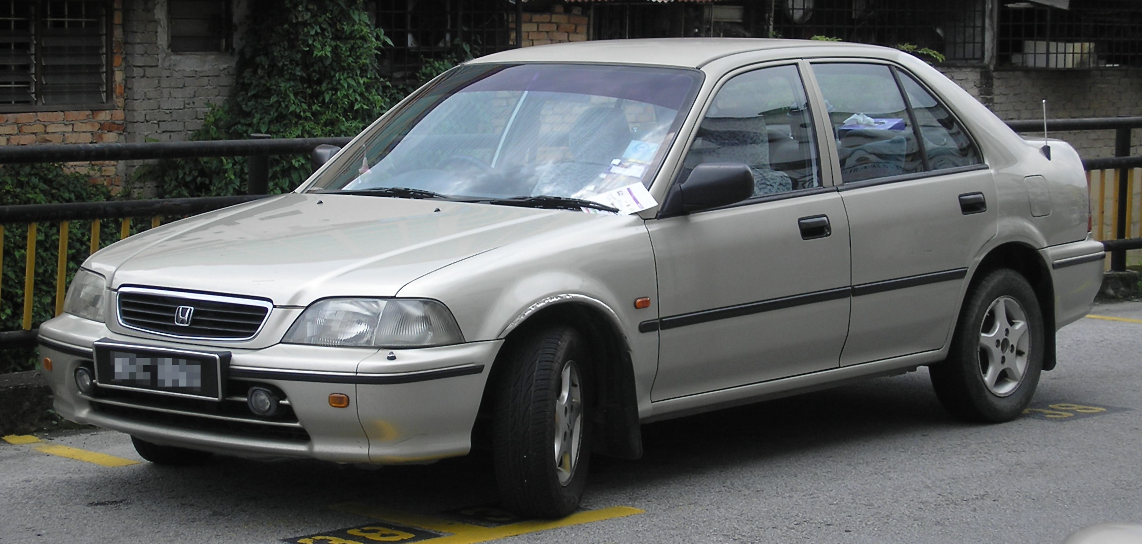 Front-side shot of a pre-facelift third generation Honda City (note three-part bumper), in Kajang, Selangor, Malaysia.